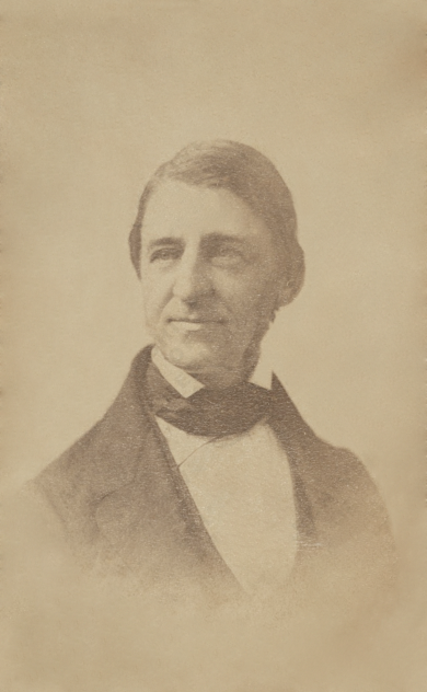 Portrait of R.W. Emerson, ca.1860-1870, by J.W. Black